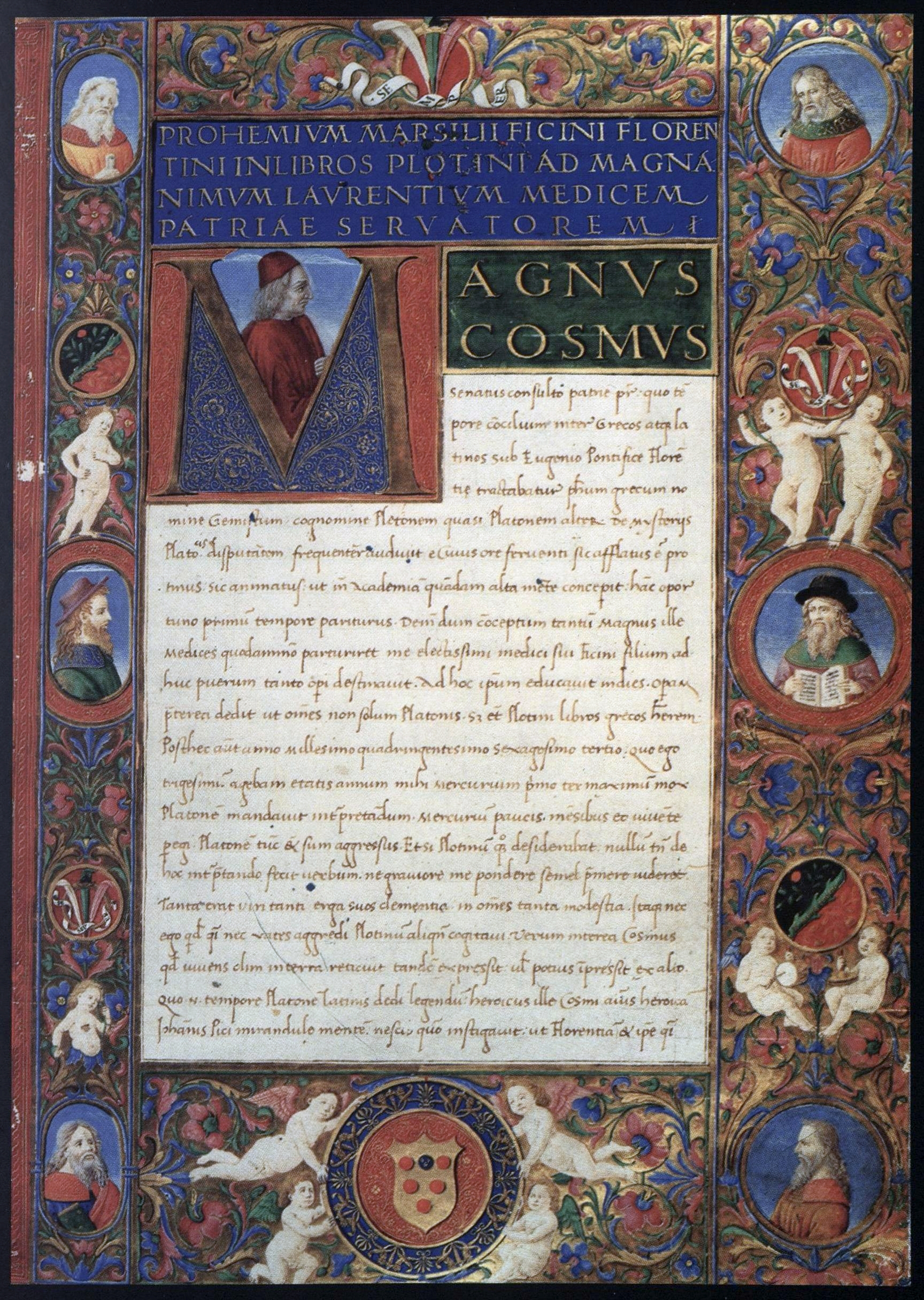 The beginning of Ficino’s preface to his Latin translation of Plotinus’ Enneads in the dedication copy for Lorenzo il Magnifico. Book illumination by Attavante degli Attavanti. Manuscript Florence, Biblioteca Medicea Laurenziana, Plut. 82.10, fol. 3r.